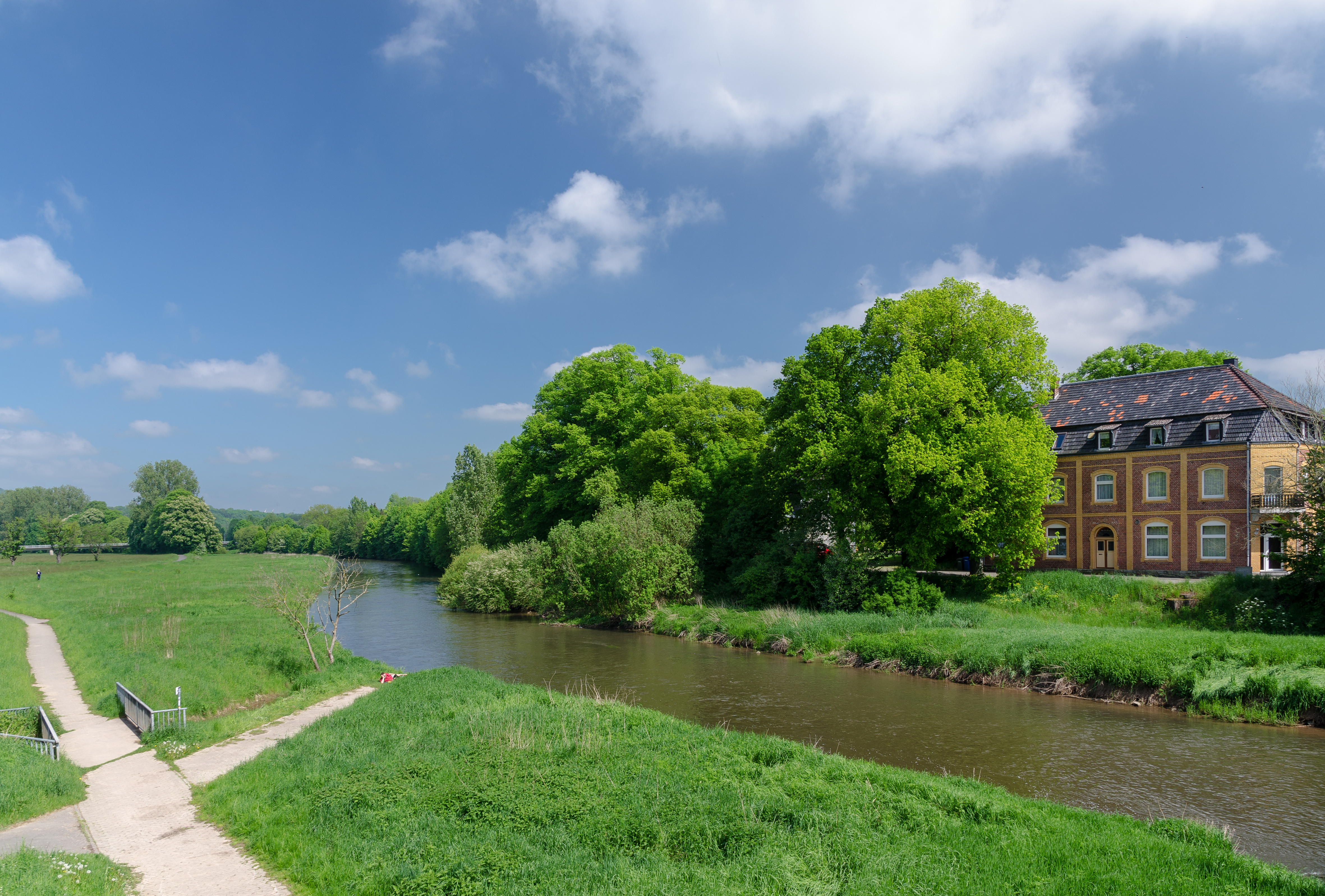 River Diemel near Warburg